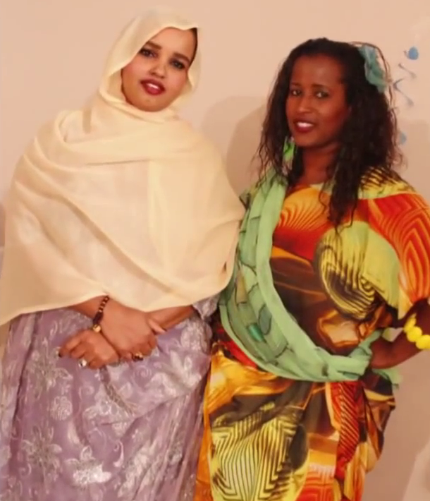 Somali women at a Somali community event in Minneapolis.